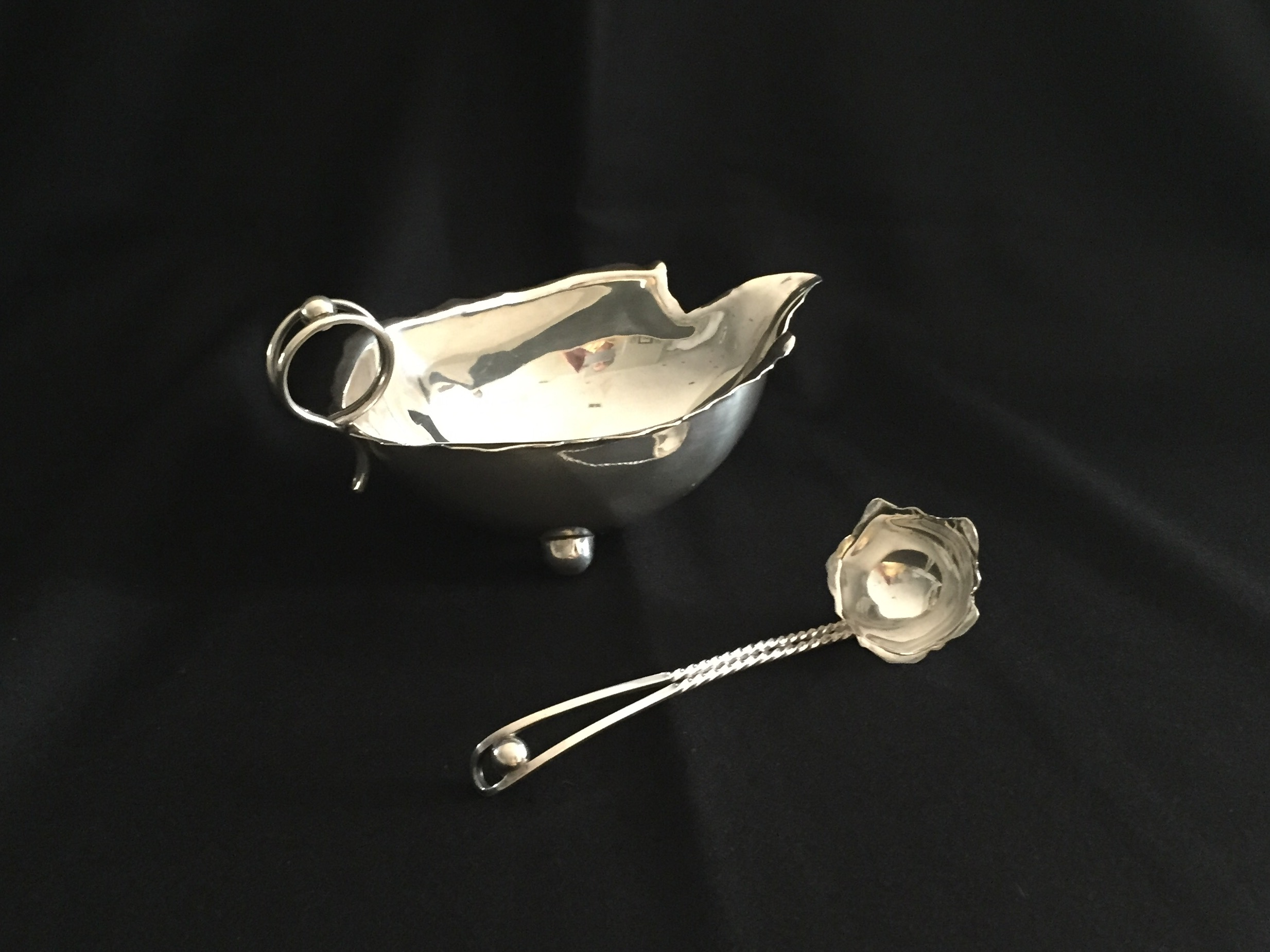 Alfredo Sciarrotta silver dish and spoon